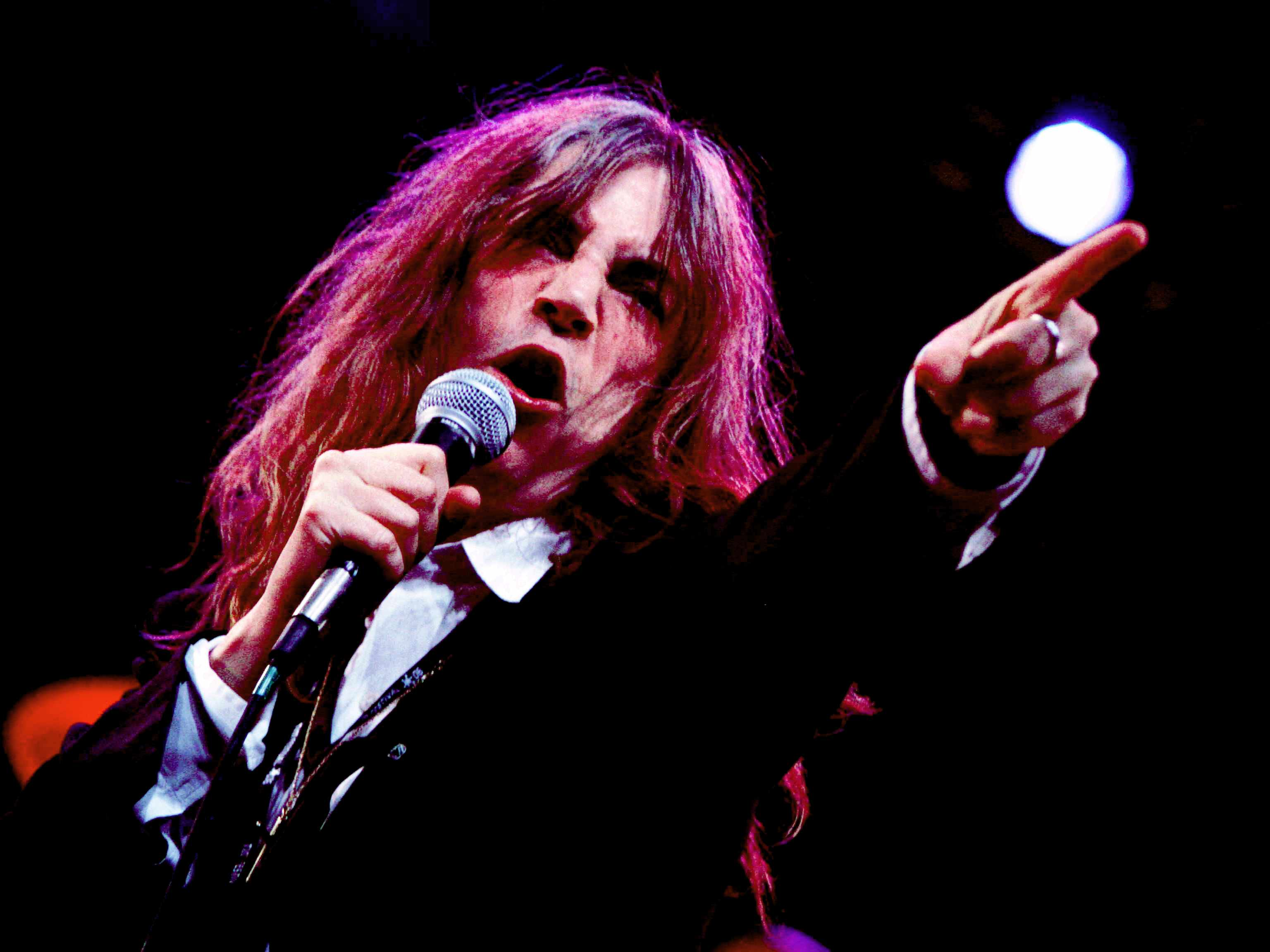 Patti Smith performing at TIM Festival, Marina da Glória, Rio de Janeiro, Brazil.